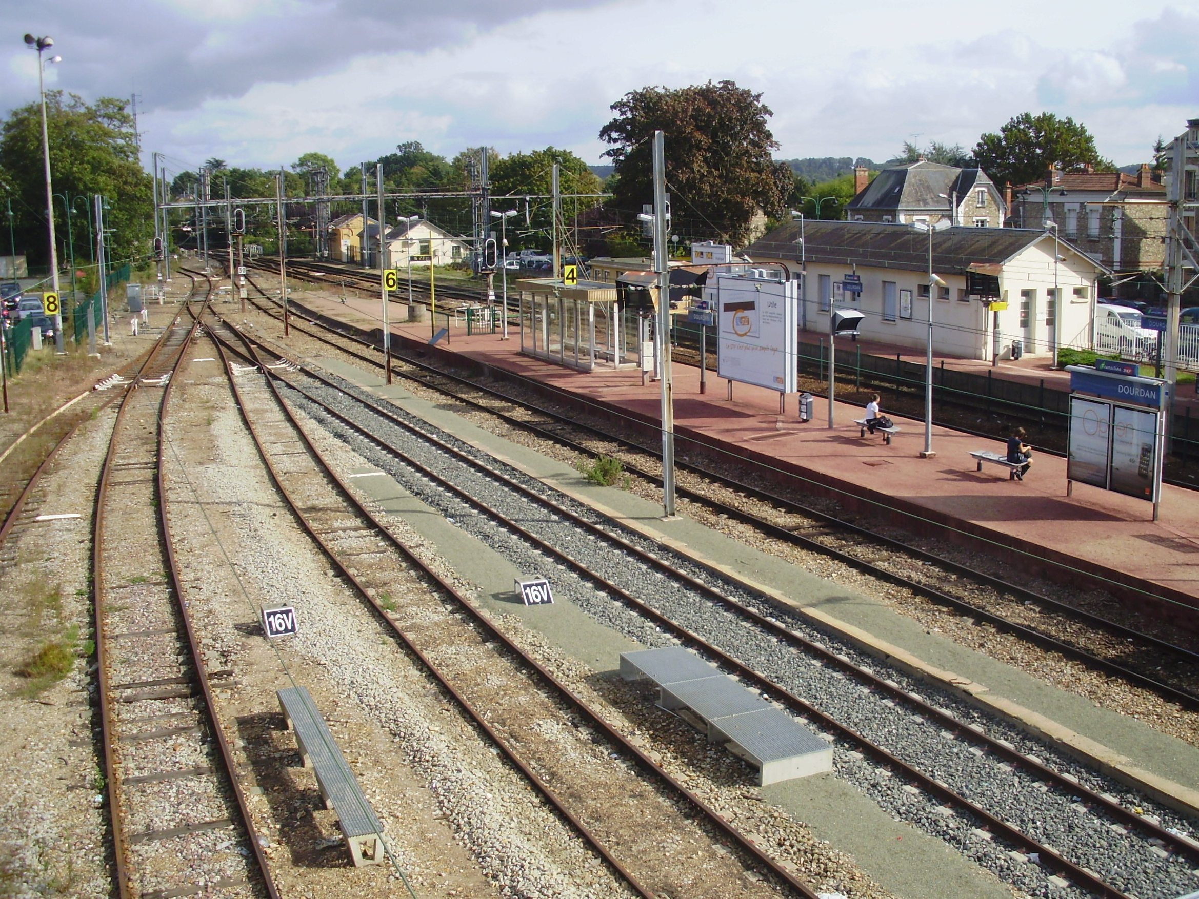 Dourdan station, Essonne, France (sidings from a public footbridge over tracks by looking towards Paris)